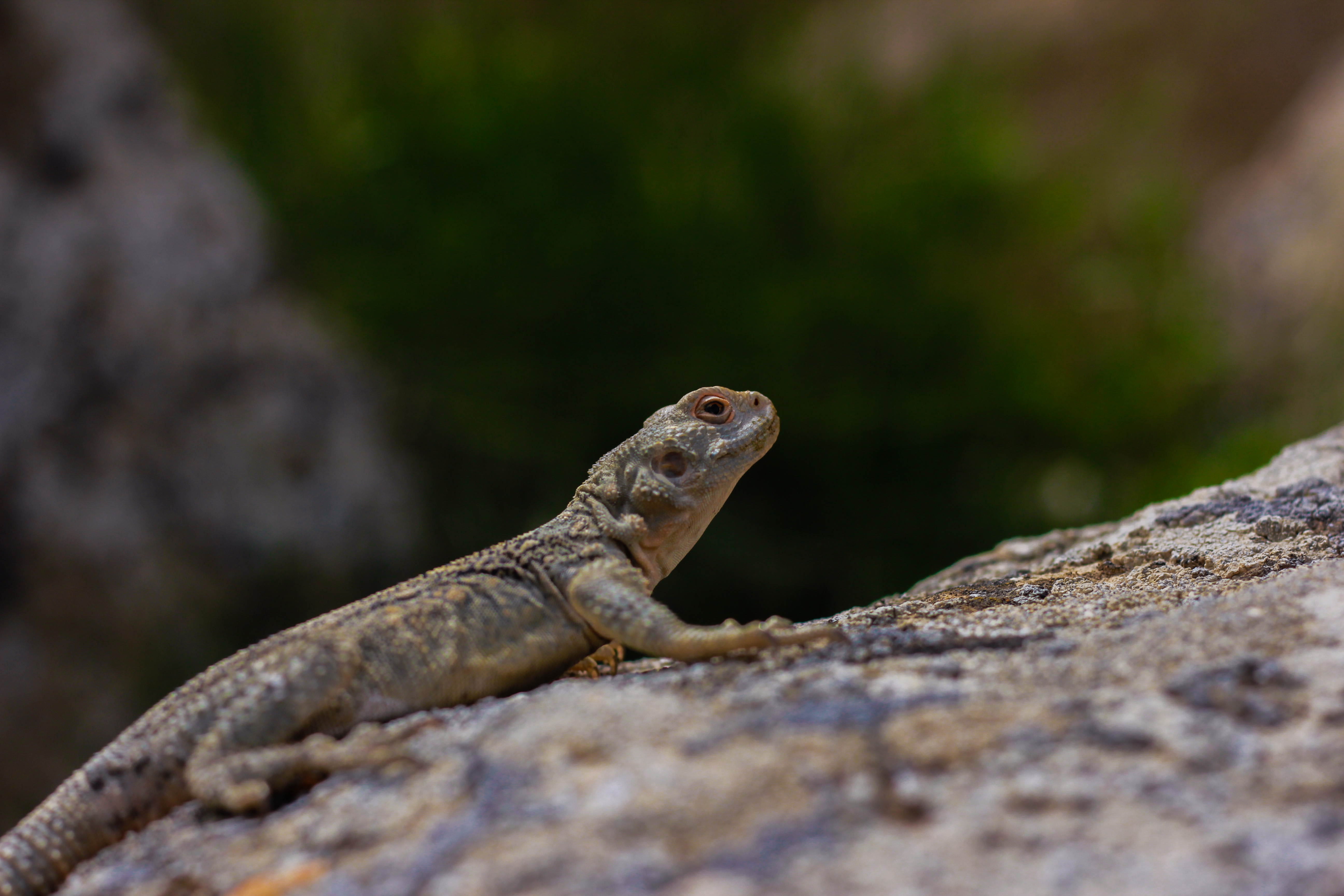 Lizard (Laudakia caucasia) on the Gobustan rocks, Gobustan State Reserve